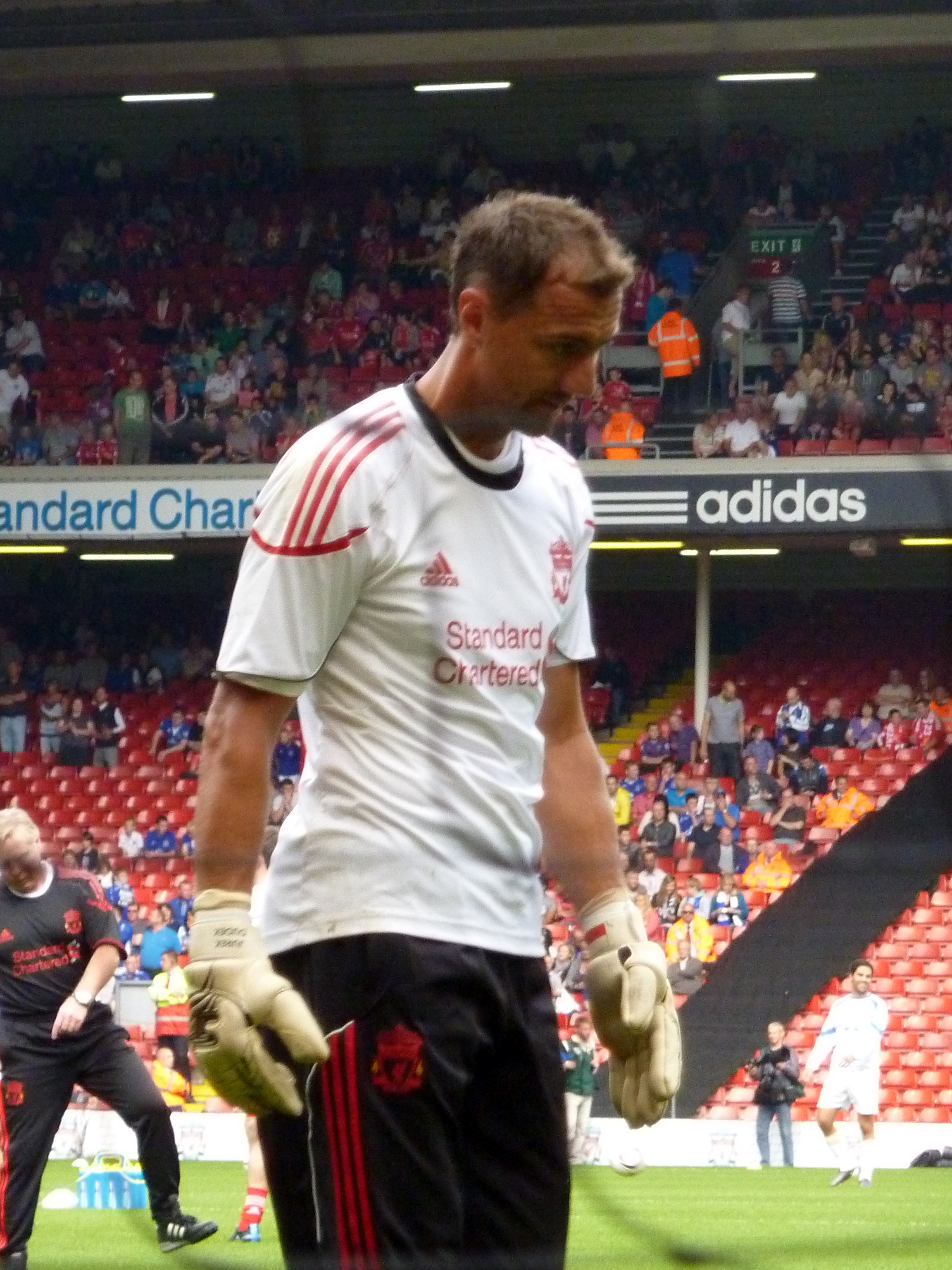 Polish football player, Jerzy Dudek, before Jamie Carragher Testimonial Match.